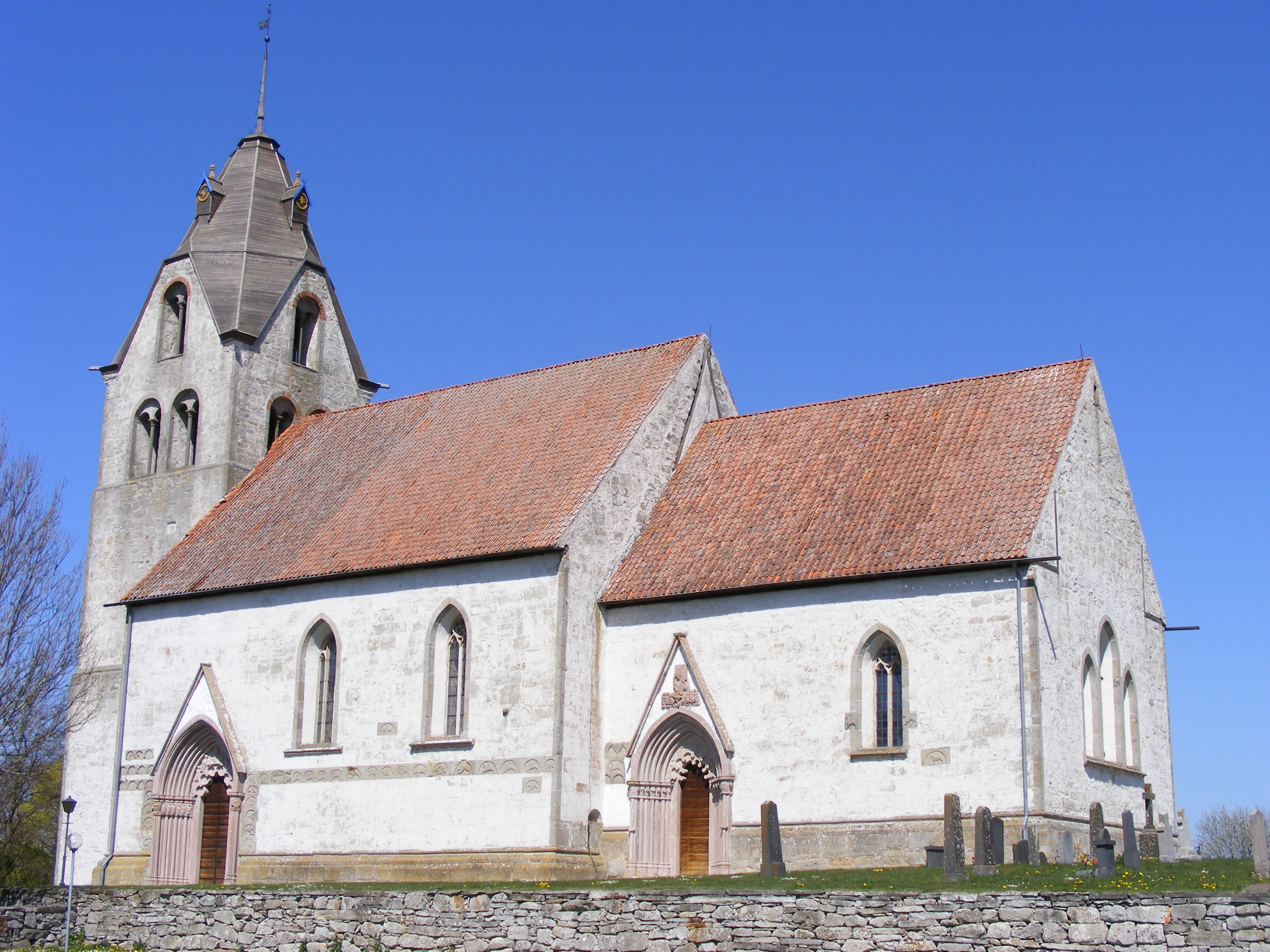 Medieval church, Grotlingbo, Gotland, Sweden